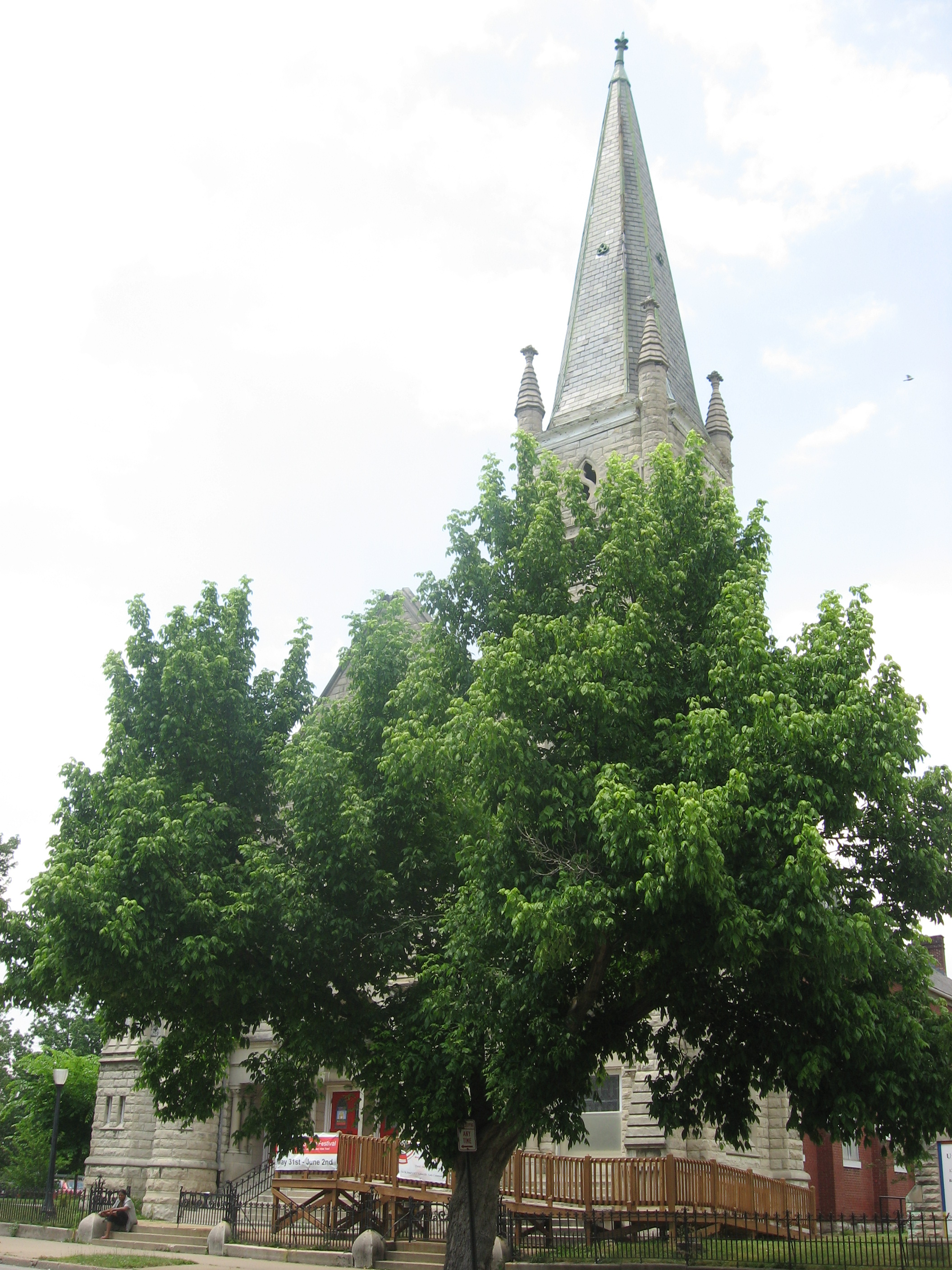 Front of St. Peter's German Evangelical Church, located at 1231 W. Jefferson Street in Louisville, Kentucky, United States. Built in 1894, it is listed on the National Register of Historic Places.